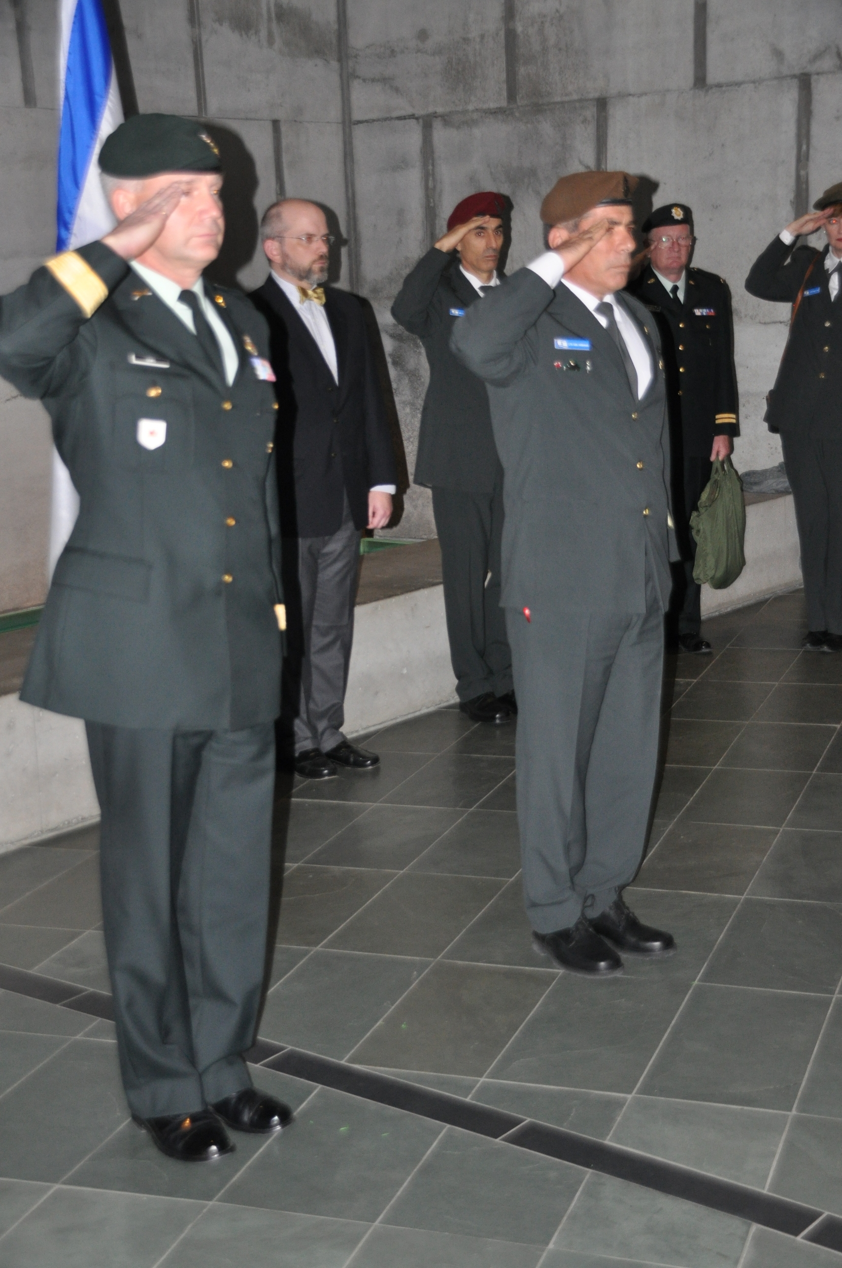 November 16, 2010. IDF Chief of the General Staff, Lt. Gen. Gabi Ashkenazi, visited the Canadian War Museum yesterday and laid a flower bouquet on the Canadian Military's Tomb of the Unknown Soldier. Speaking in the ceremony was a female officer of the Canadian military, who is Jewish and a Reform rabbi. Lt. Gen. Gabi Ashkenazi also met with his Canadian counterpart, General Walter Natynczyk, Chief of the Defense Staff of the Canadian Forces yesterday. The meeting took place as part of a series of work-related visits by the IDF Chief of Staff in Canada and the United States. הרמטכ"ל, רא"ל גבי אשכנזי, ביקר ביום ב' במוזיאון המלחמה בקנדה והניח זר על קבר החייל האלמוני של צבא קנדה. בטקס נשאה דברים קצינה מצבא קנדה, שהינה יהודיה ורבה רפורמית. רא"ל גבי אשכנזי אף התארח אמש אצל עמיתו המקצועי מפקד צבא קנדה, גנרל וולט ג'יי נטינצ'יק. הפגישה הינה חלק מסדרת פגישות מקצועיות אשר עורך הרמטכ"ל בארה"ב וקנדה.